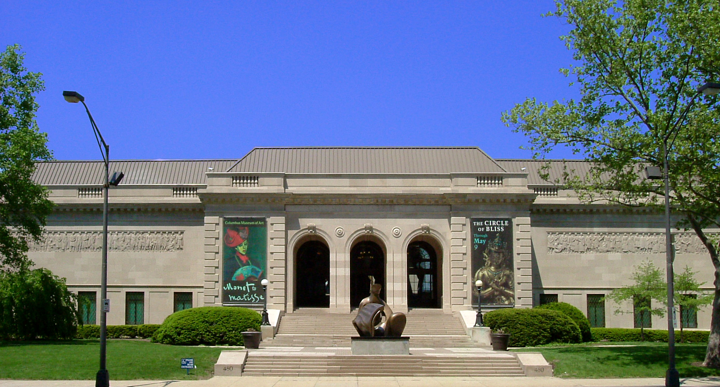 Columbus Museum of Art, Columbus, Ohio This image was created by Alexander Smith on 8 May, 2004.